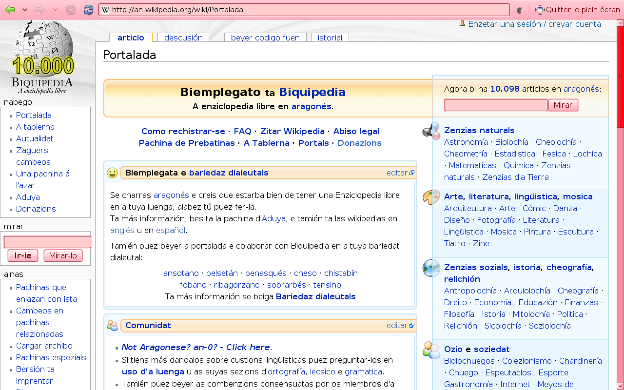 Aragonese Wikipedia ([1]) homepage as of 31 August 2008 as rendered by the Epiphany browser (2.22.3) on a customised colour theme in full-screen mode at a 1280x800-pixel screen reolution; screenshot produced with GNOME 2.22.3 in Debian GNU/Linux lenny.